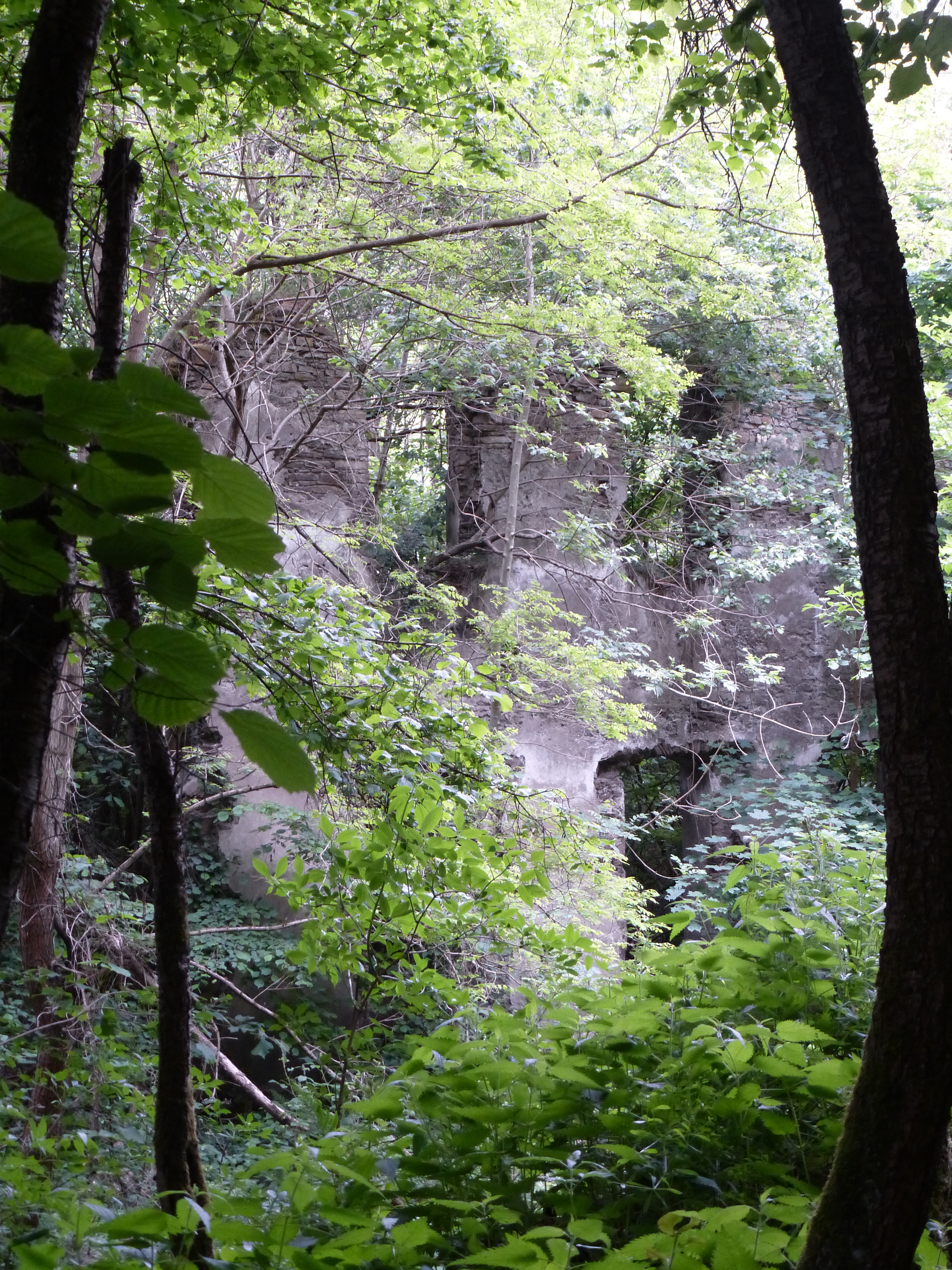 Ruins of the former Carmelites convent Toenesstein (aka Sankt Antoniusstein), established in 1465, in the wood land near Toenisstein, Rhineland-Palatinate, Germany